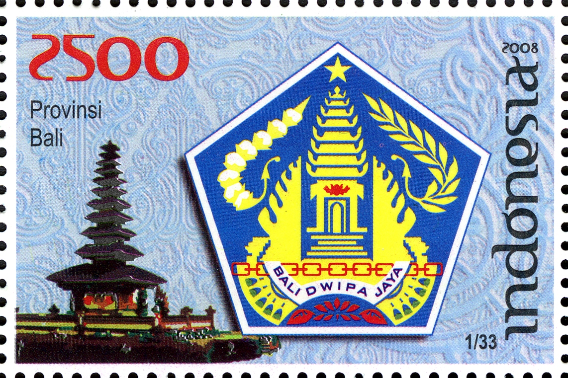 Stamps of Indonesia